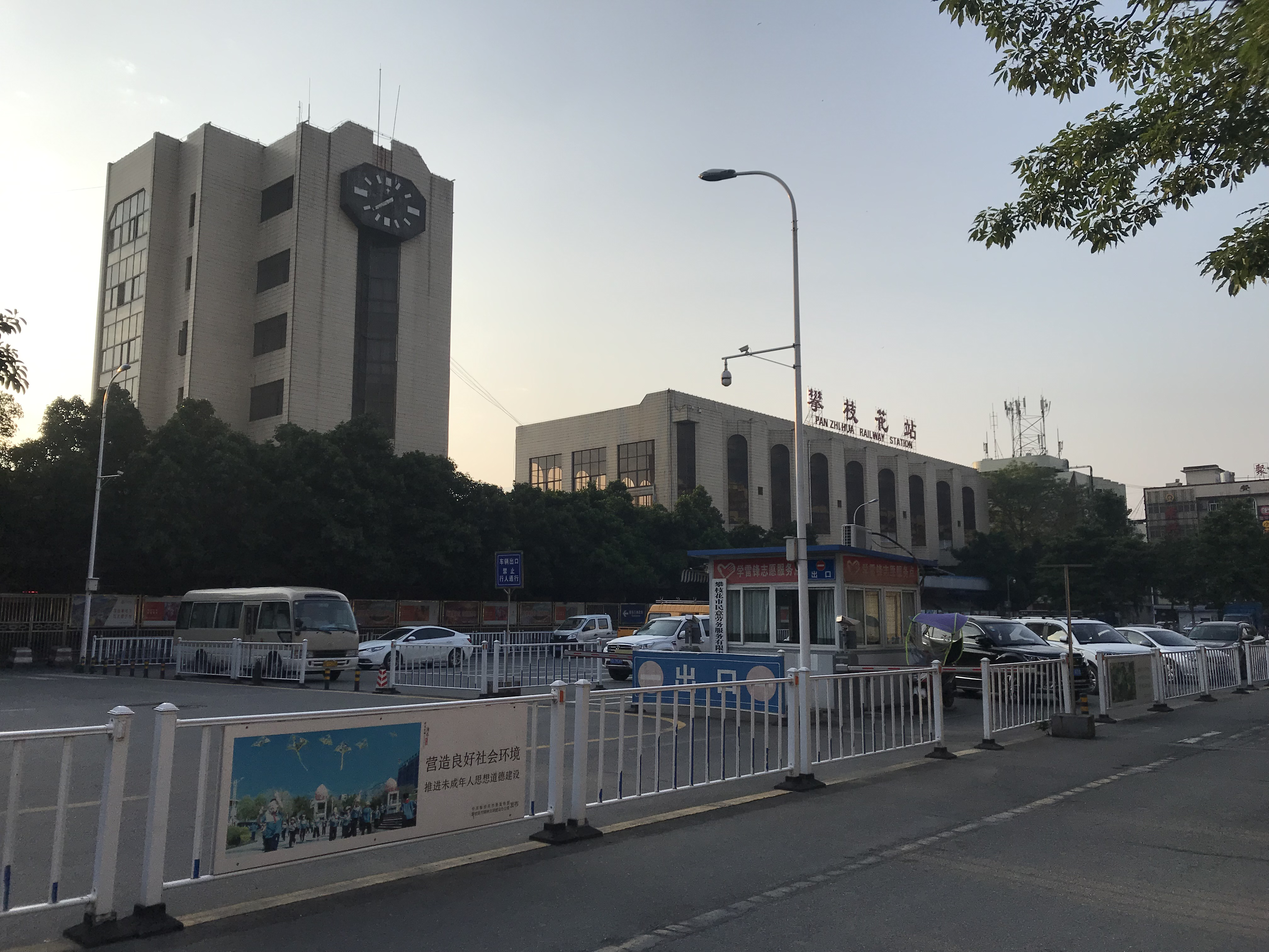 201908 Panzhihua Station Building Side View